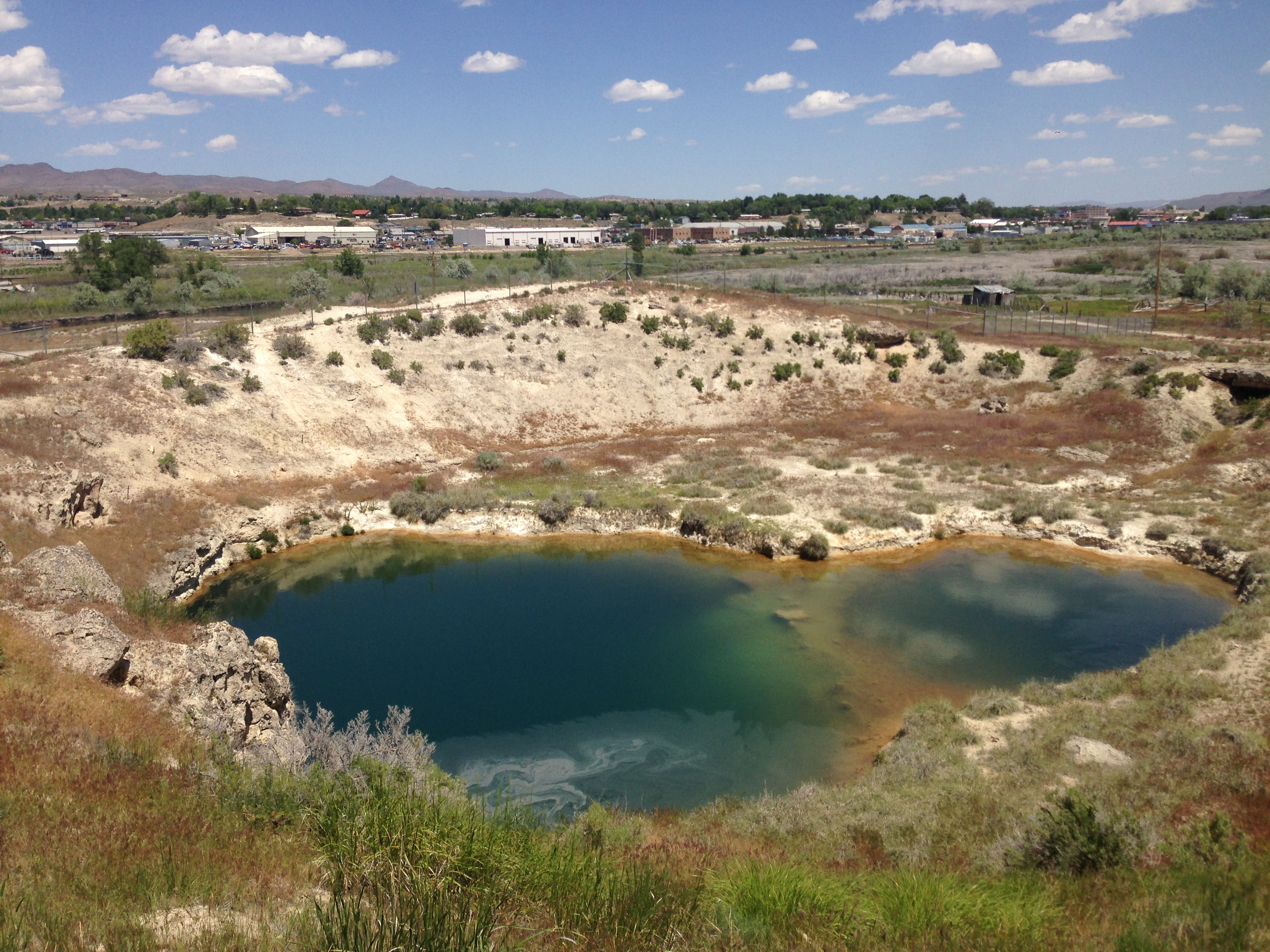 View across the Elko Hot Hole — near Template:Elko, Nevada.